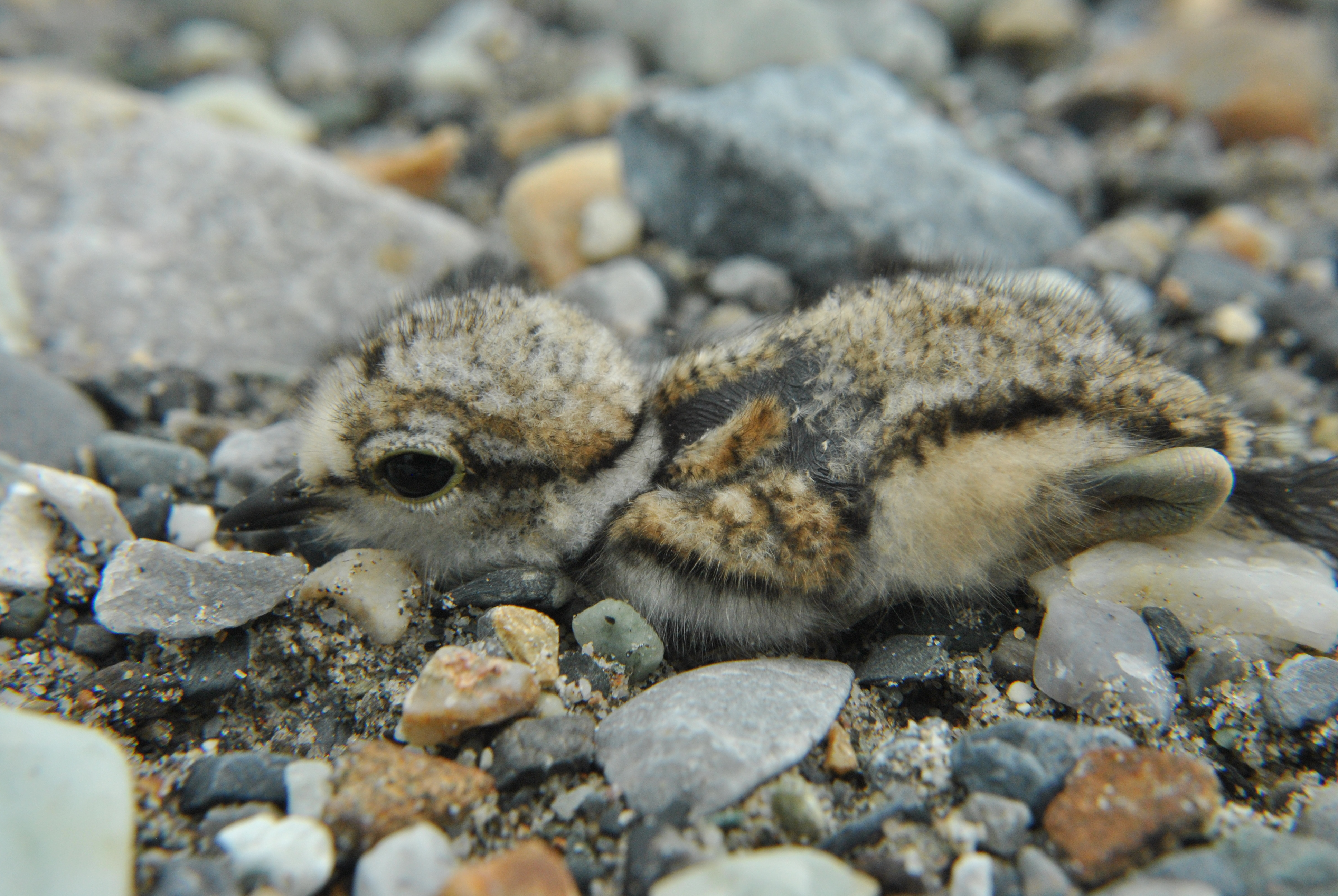 This image was taken in the project Wiki Loves Butterfly. A chick of River lapwing found in Jayanti river bed, Buxa Tiger Reserve.